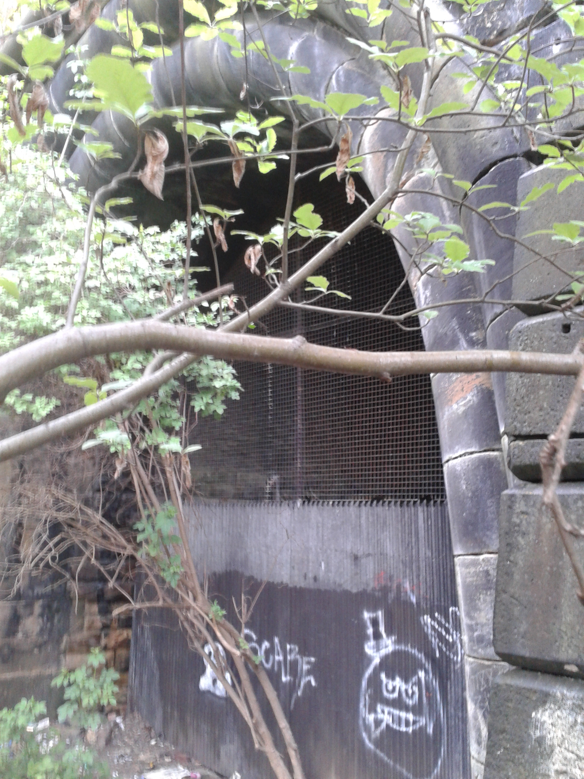 The west portal of the closed Bridgehouses Tunnel, near Brunswick Road in the Burngreave area of Sheffield. The tunnel was also called Spital Tunnel and was known locally as the Fiery Jack